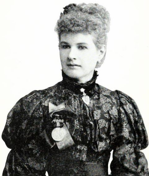 Anna Kingsford (1846–1888), one of the first women in Europe at the time to obtain a medical degree. Well known anti-vivisectionist, vegetarian, and women's rights campaigner.